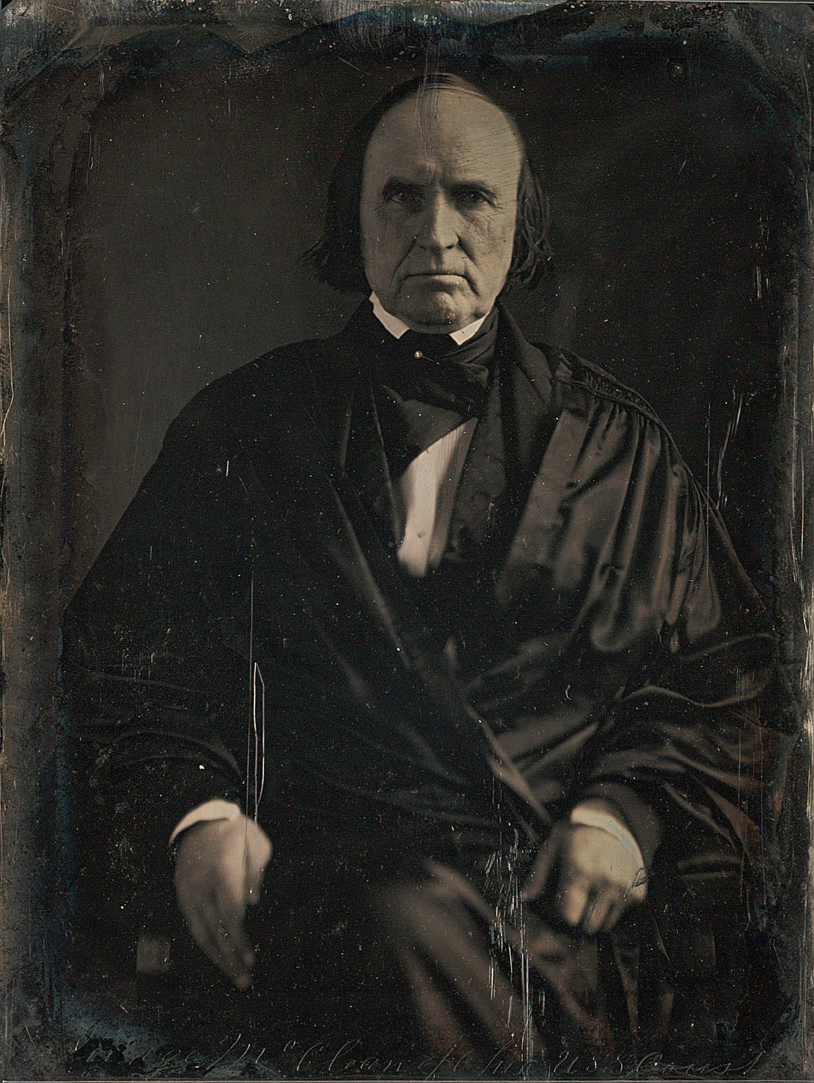 Daguerreotype portrait of Ohio politician and judge John McLean, photographed by Mathew Brady at the United States Capitol at Washington, D.C., March 1849. Courtesy of the Beinecke Rare Book & Manuscripts Library, Yale University.[1]